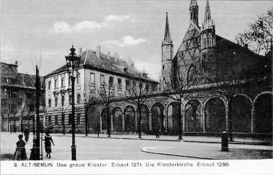 Graues Kloster und Klosterkirche in Berlin, alte Ansichtskarte um 1910/ So-called 'Gray monastery' (Graues Kloster) and monastery church in Berlin; old postcard from approx. 1910